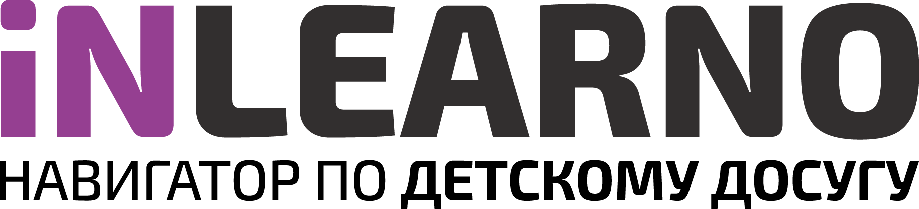 Inlearno logo